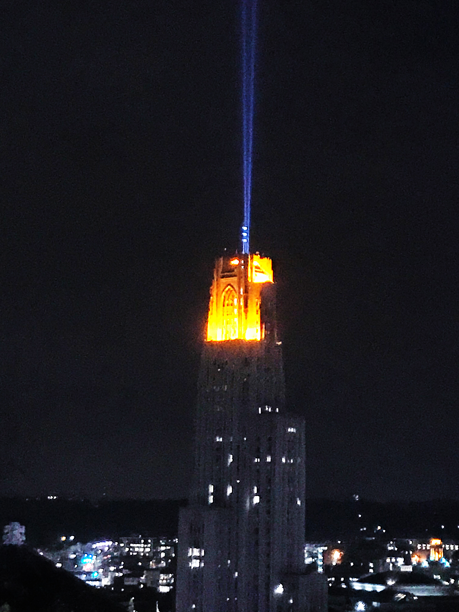 Victory Lights on the University of Pittsburgh's Cathedral of Learning